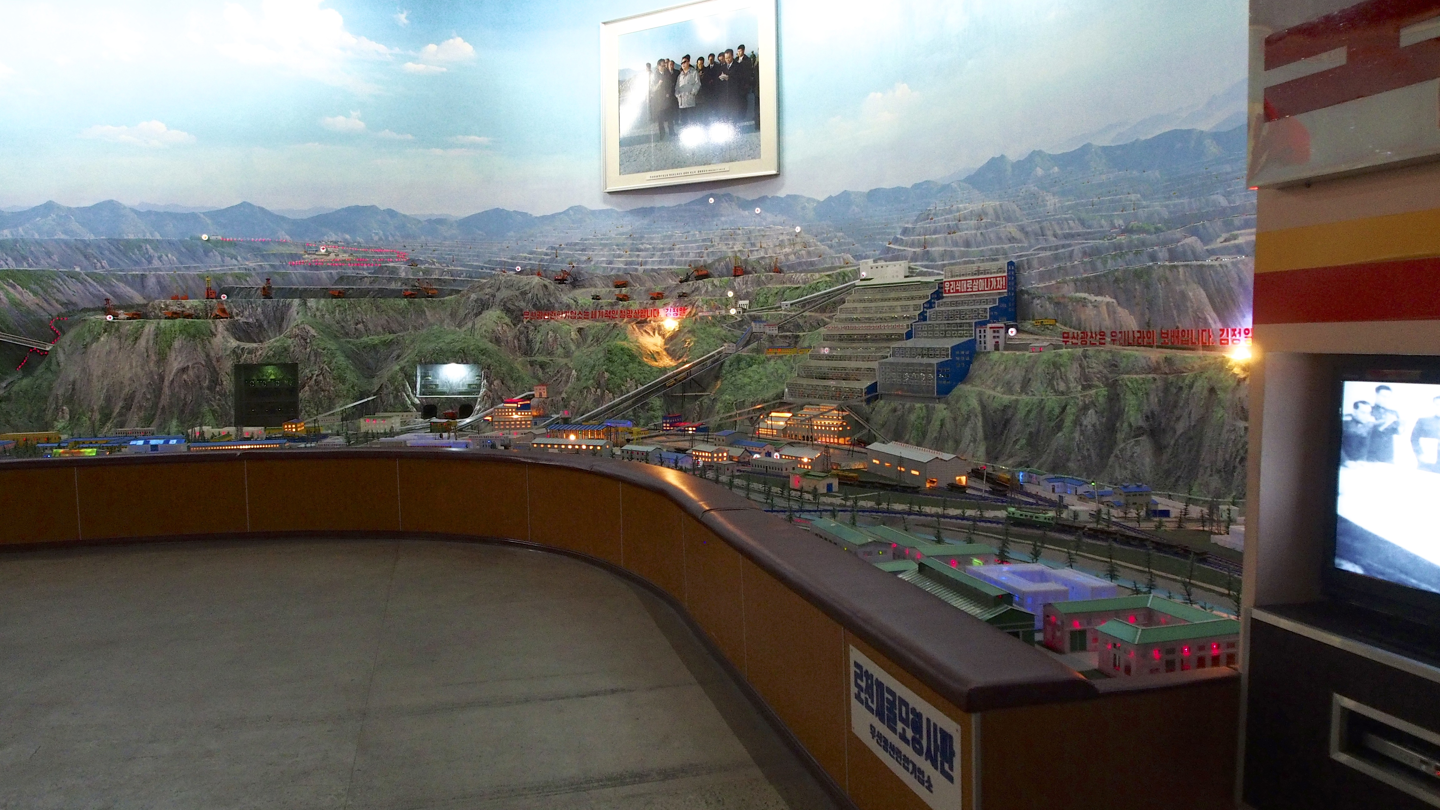 Mine display at the Three Revolution Exhibition